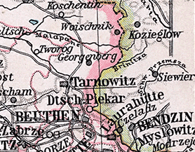 Detail from a map of Silesia.